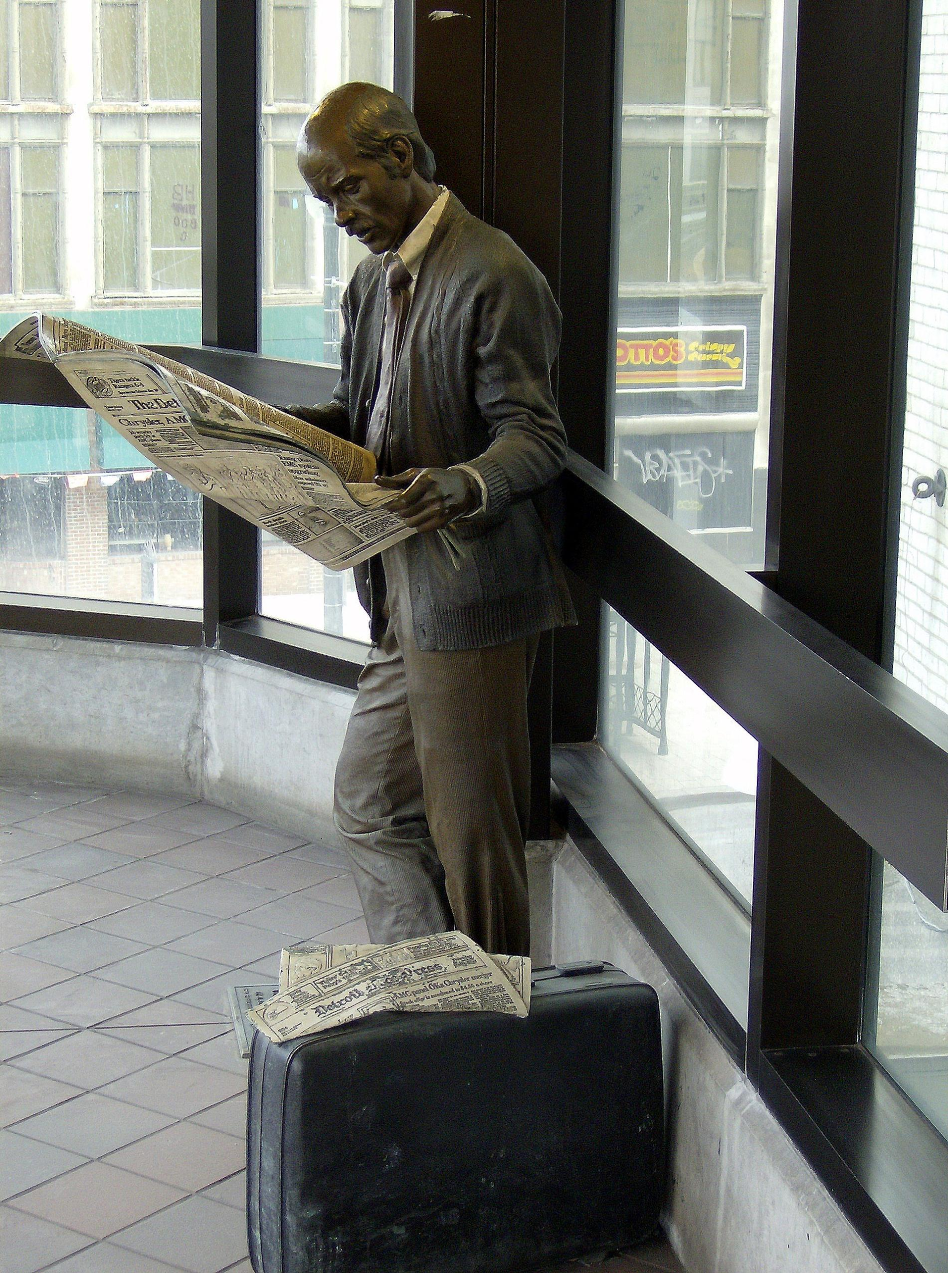 Catching Up by J. Seward Johnson, Jr. at the Grand Circus Park station in Detroit, Michigan